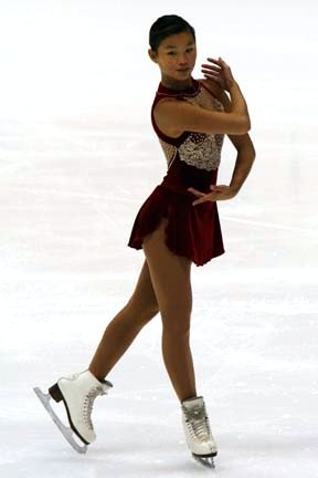 Eva Lim at the 2007-2008 Junior Grand Prix event in Lake Placid, New York, United States.